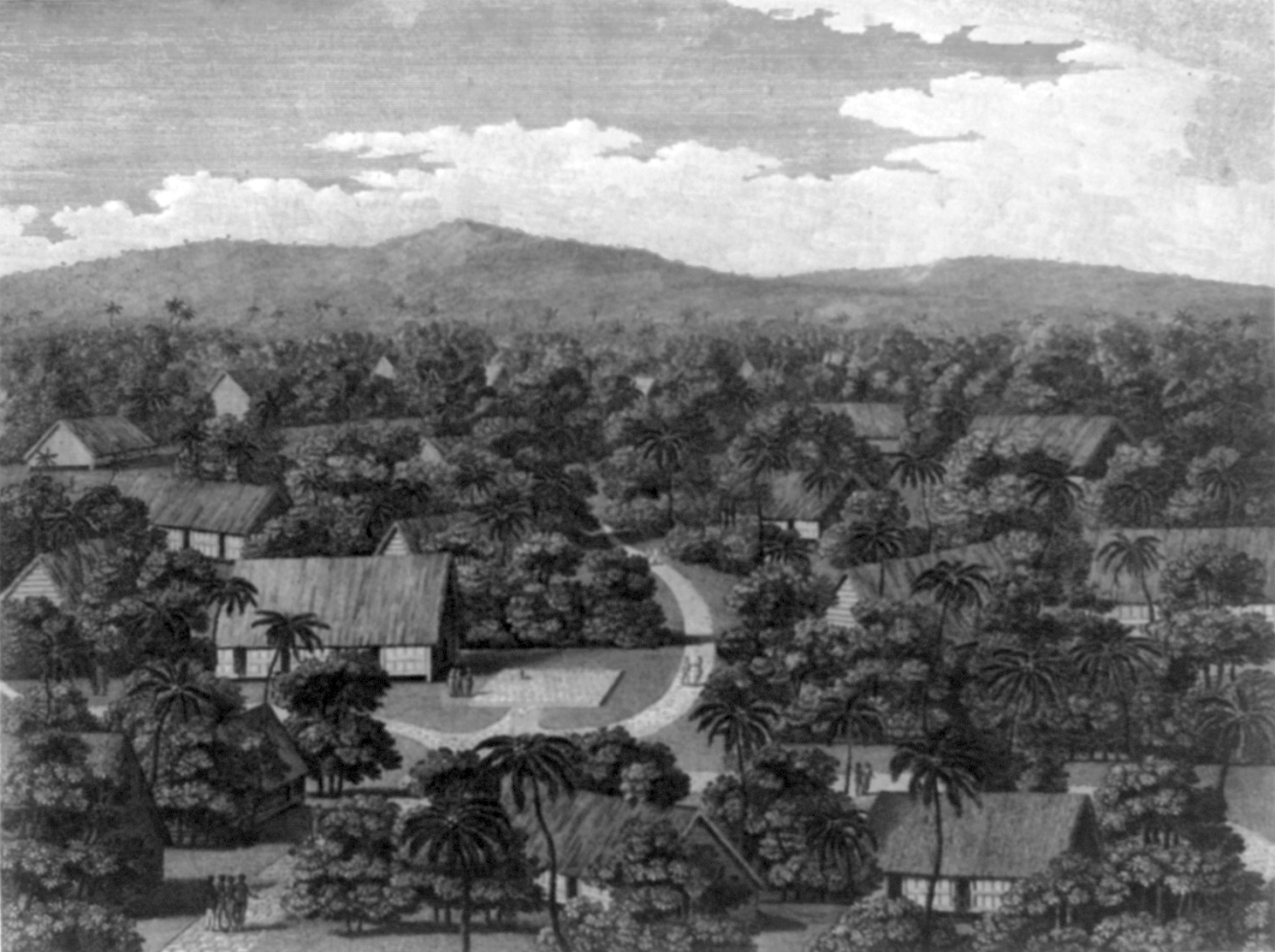 View of part of the town of Pelew, and the place of Council. Illustration in: George Keate, An Account of the Pelew Islands, situated in the Western part of the Pacific Ocean.